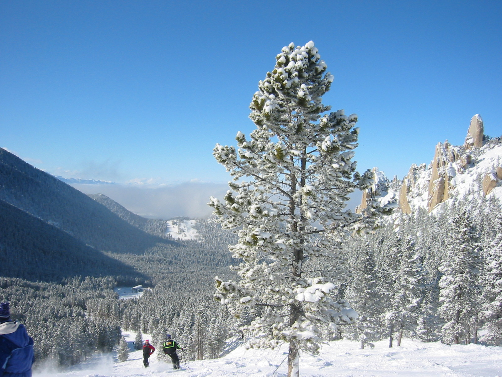 Red Lodge Mountain Resort, looking at the Palisades area on the north end of the ski area.